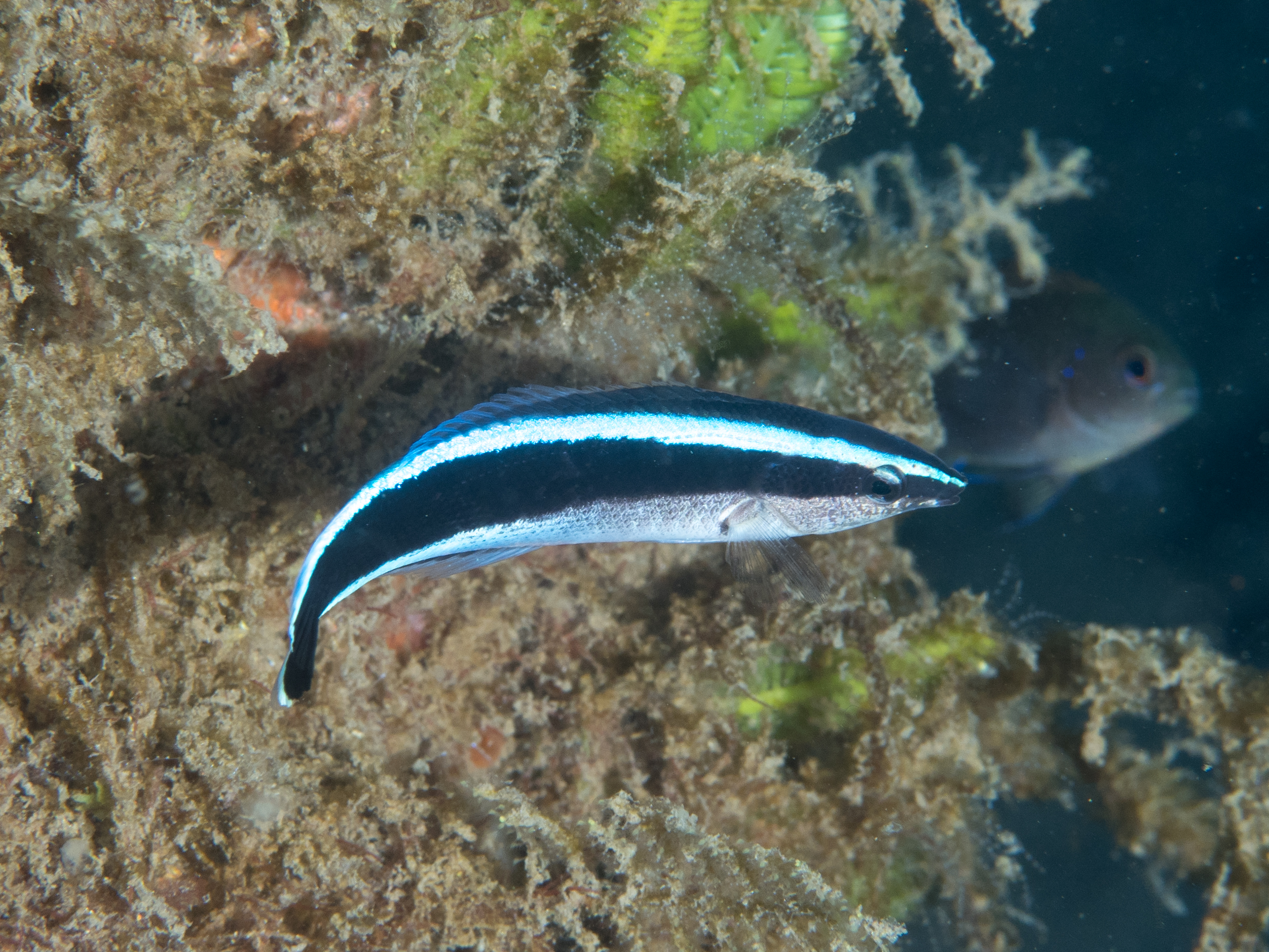 Lembeh, Indonesia - Bluestreak cleaner wrasse (Labroides dimidiatus)